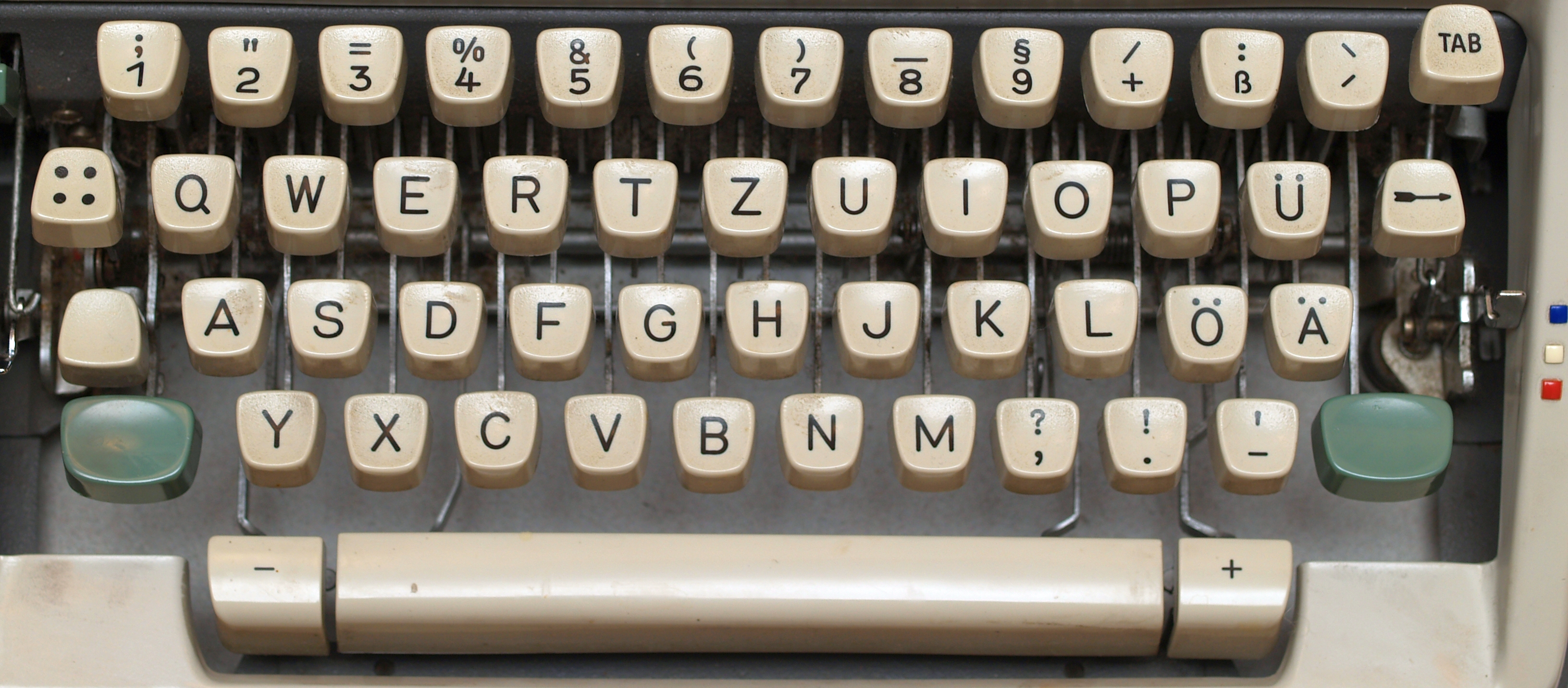 Keyboard of a German mechanical typewriter, manufactured 1964 by Olympia Werke. Cropping of the original work of Arnoldius.